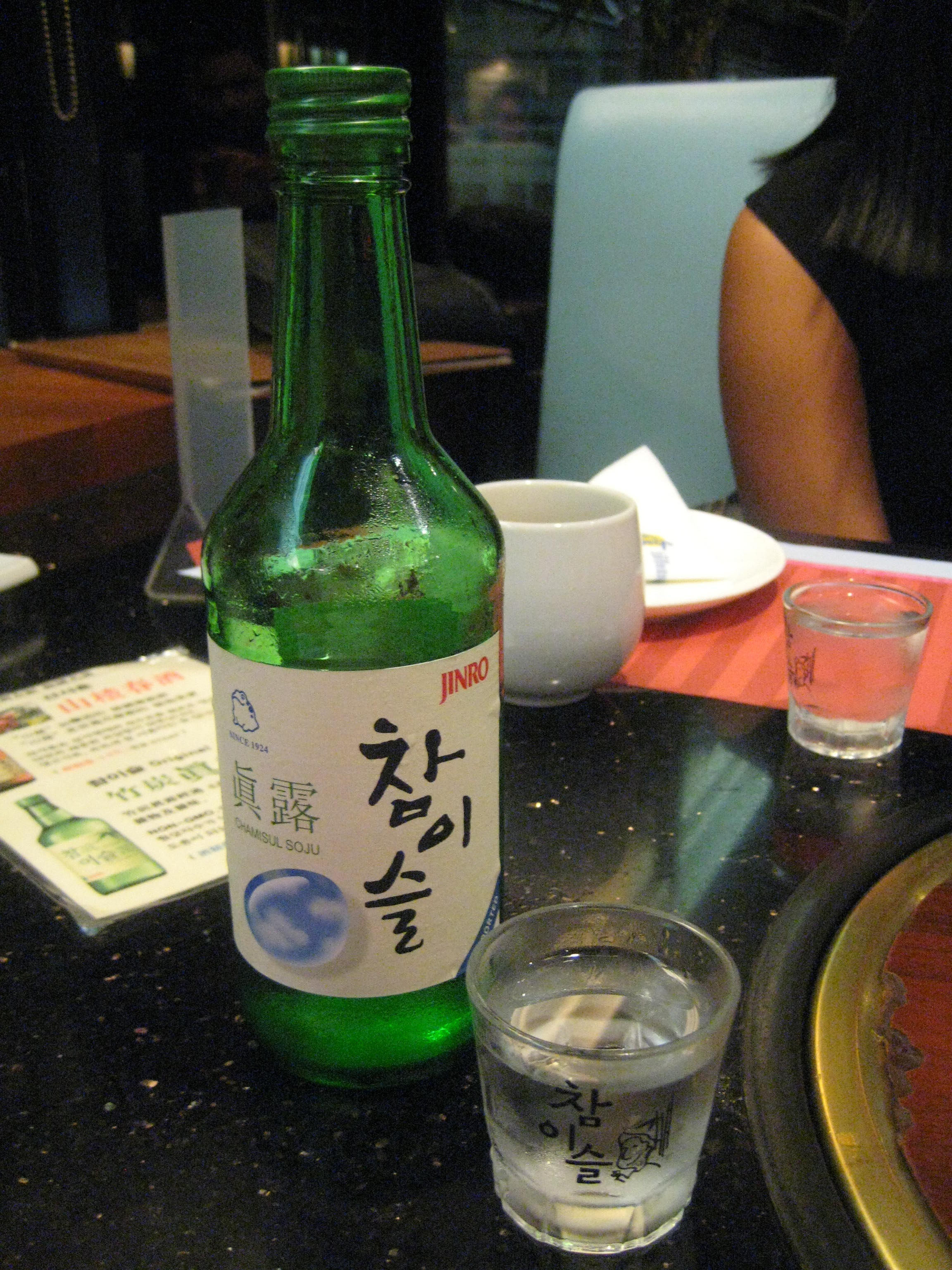 Bottle of Soju with glass in a korean restaurant in Hong-Kong